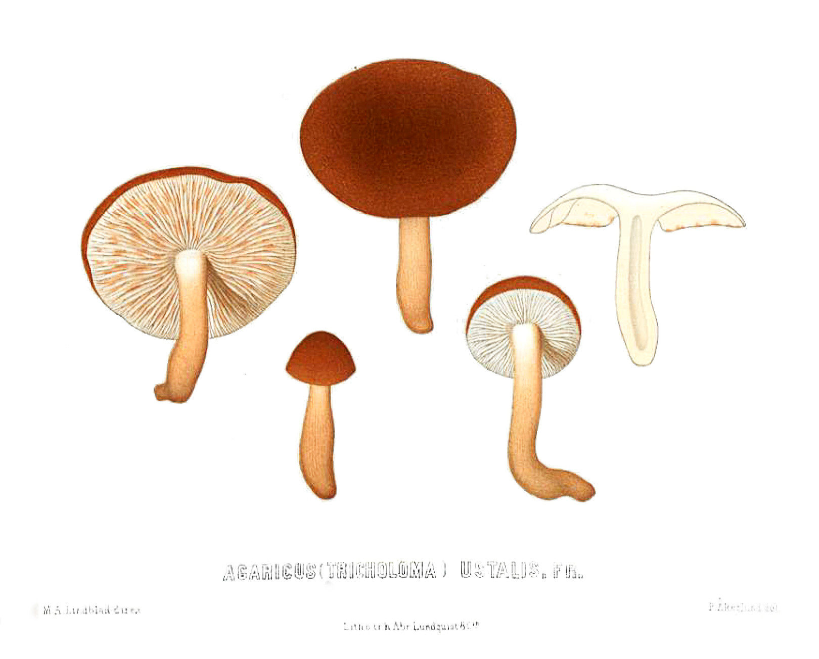 Drawing of Agaricus ustalis in "Icones selectae hymenomycetum nondum delineatorum" by E.M. Fries. Description of the fungi by Fries on page 24 (in Latin).